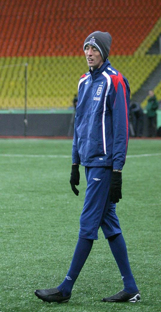 Peter Crouch, England